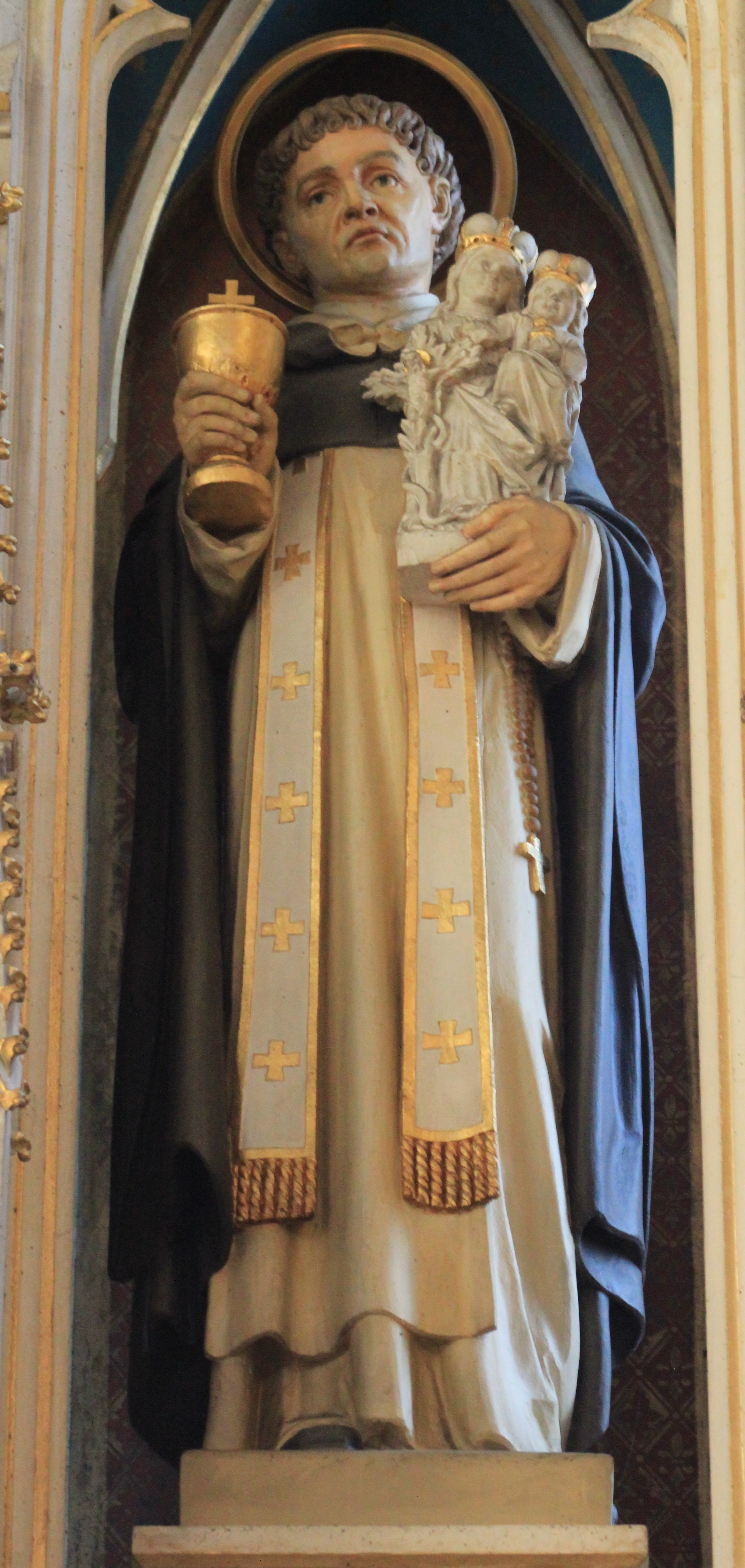 Dominican-Order-church in Friesach: Main altar: Saint Hyacinth